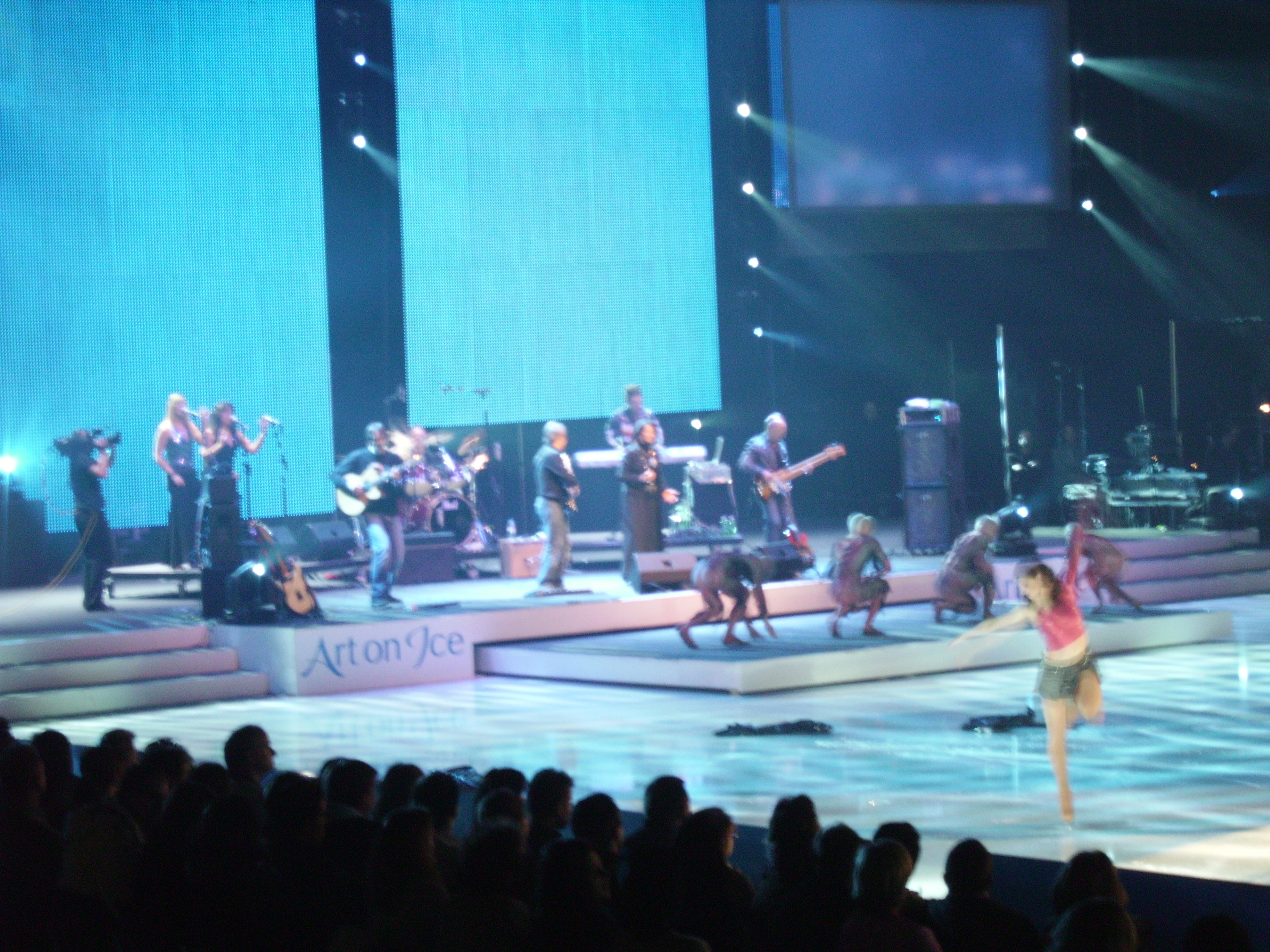 The show has finally began